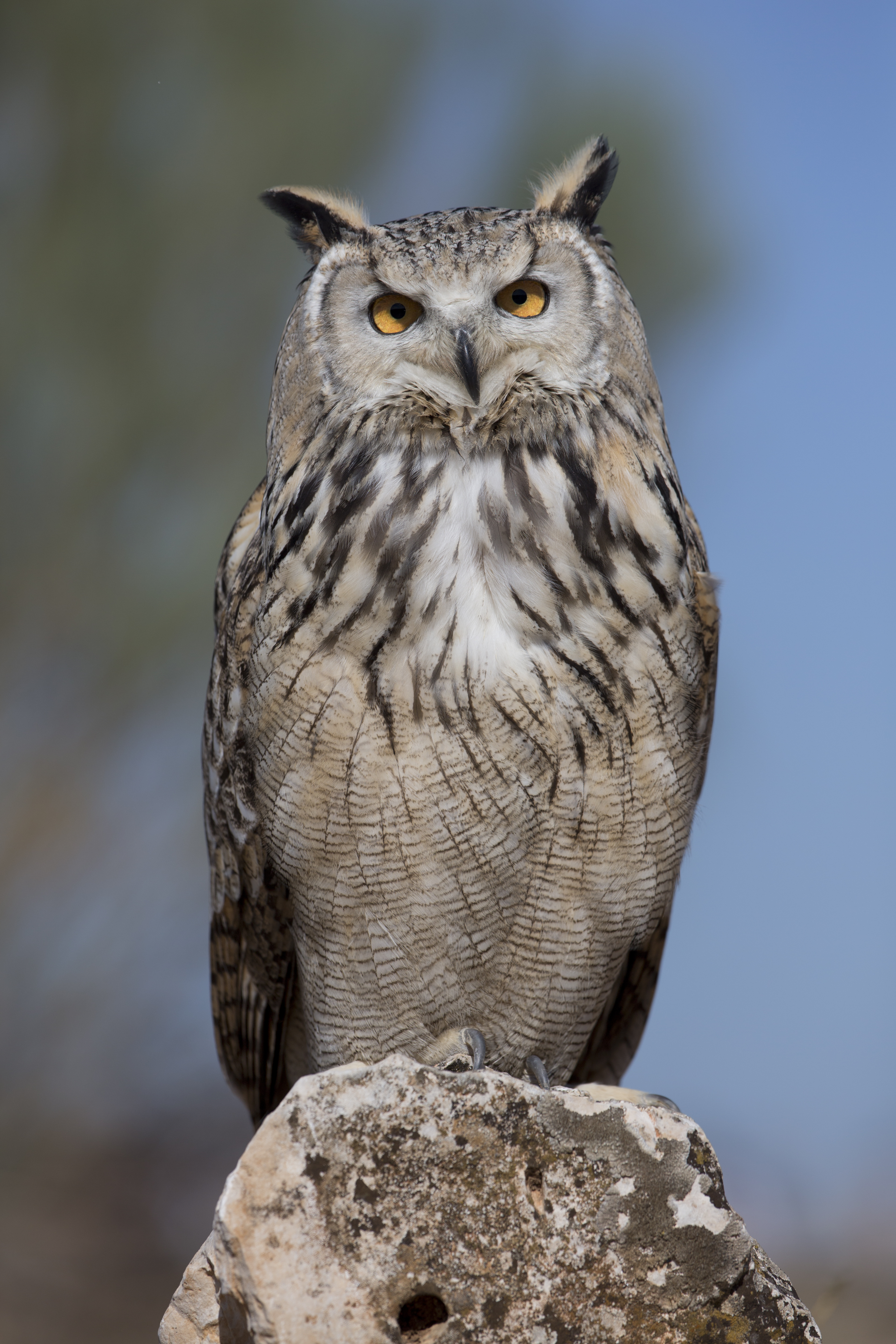 Eurasian eagle-owl (Bubo bubo sibiricus) in captivity.